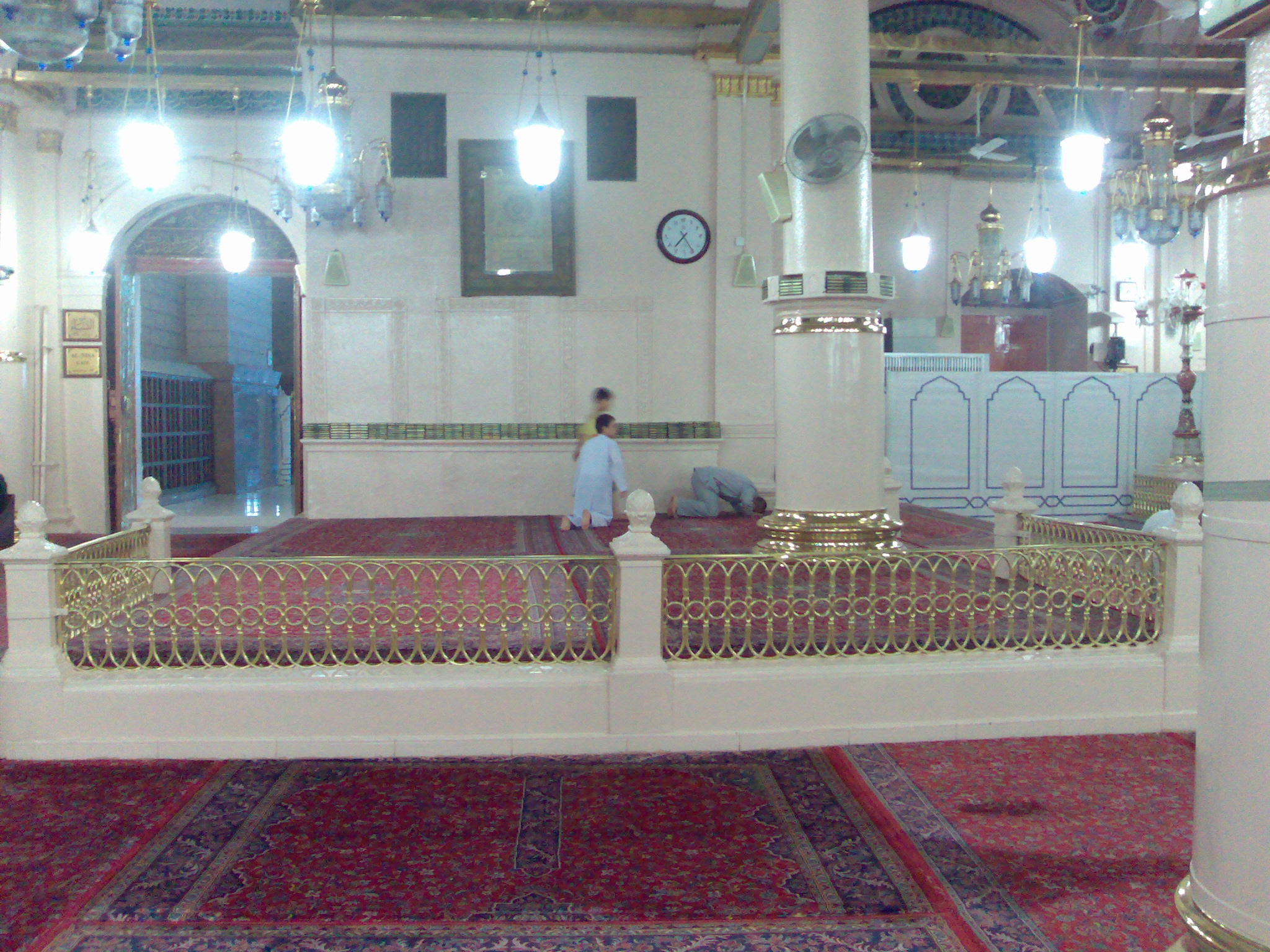 Al-Masjed Al-Nabawi, Dakket Aghwat